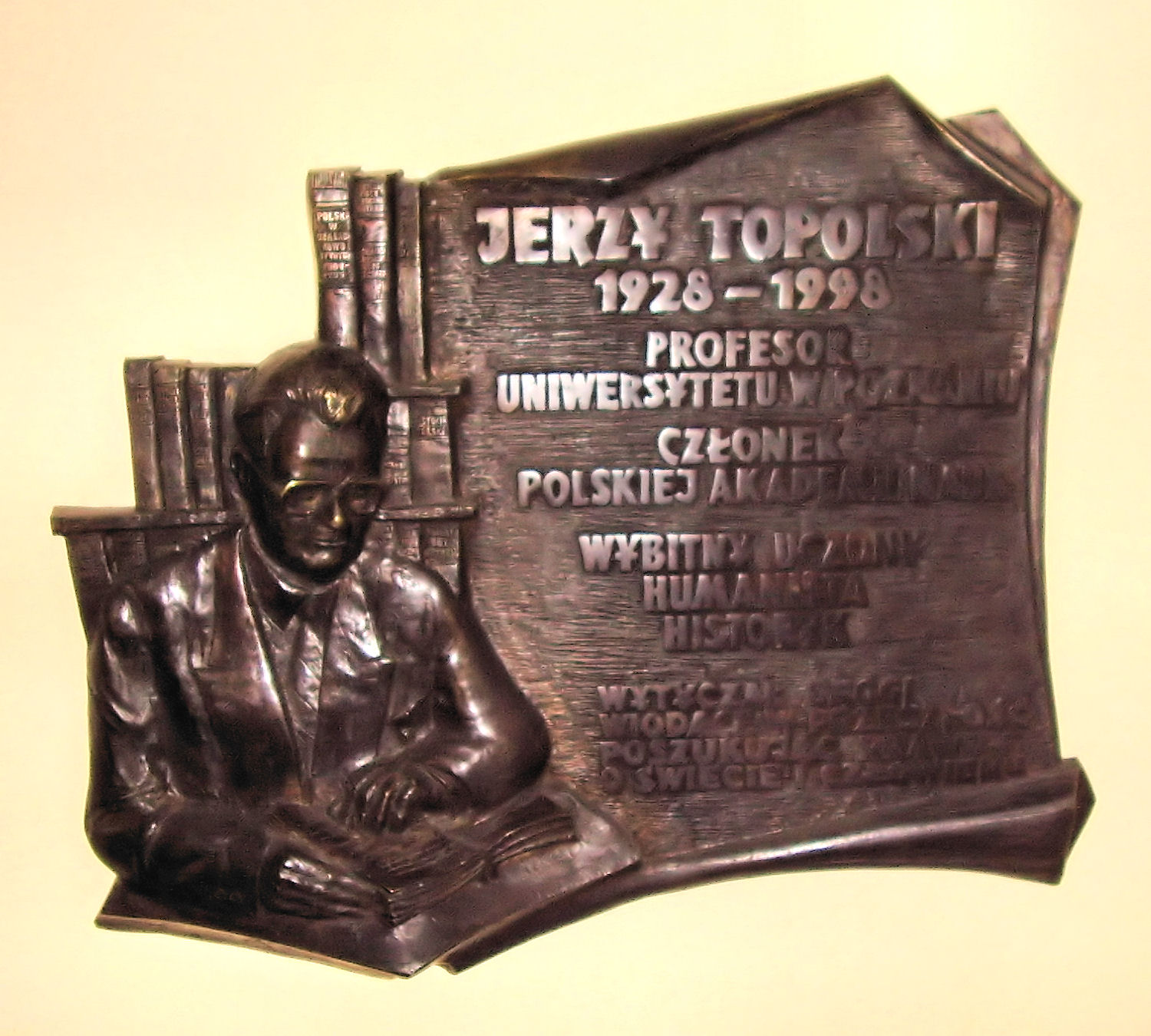 historican from Polish, commemorative plaque in building of Faculty of History of Adam Mickiewicz Uniwersity in Poznań